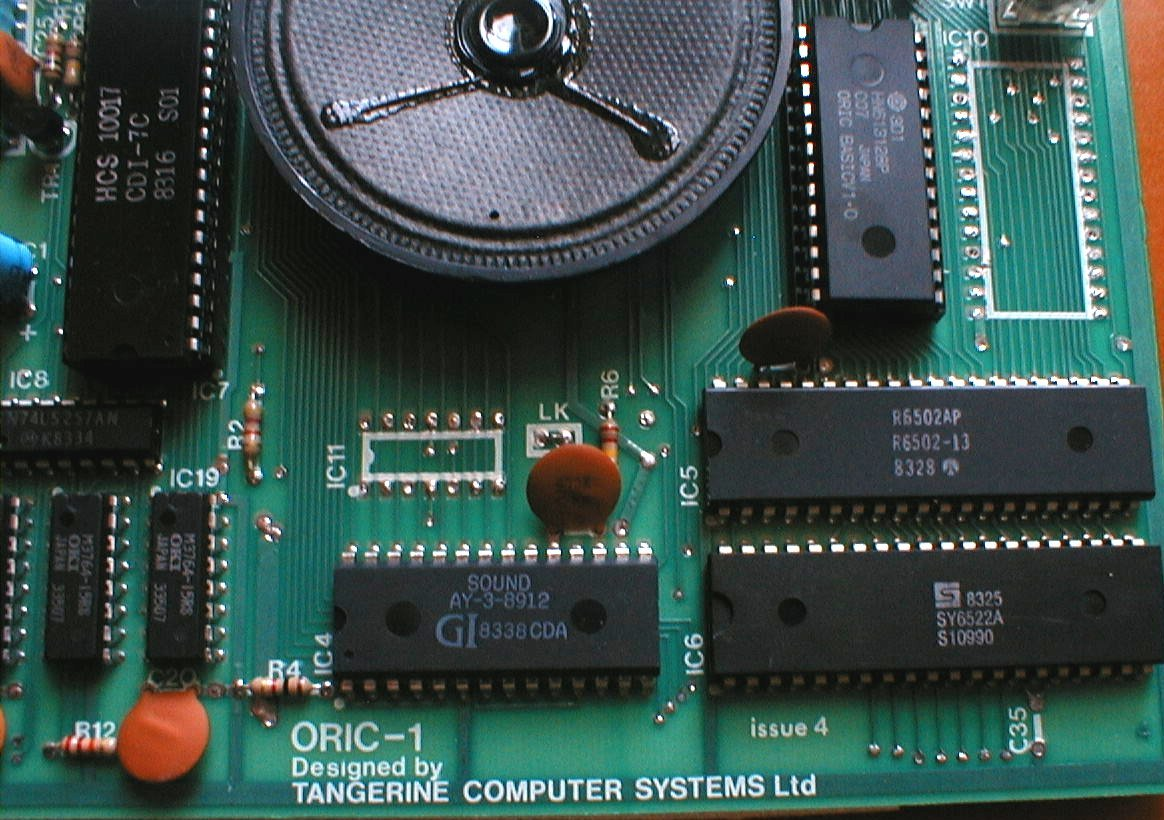 Details of principal chips in the Motherboard of a Oric 1 computer